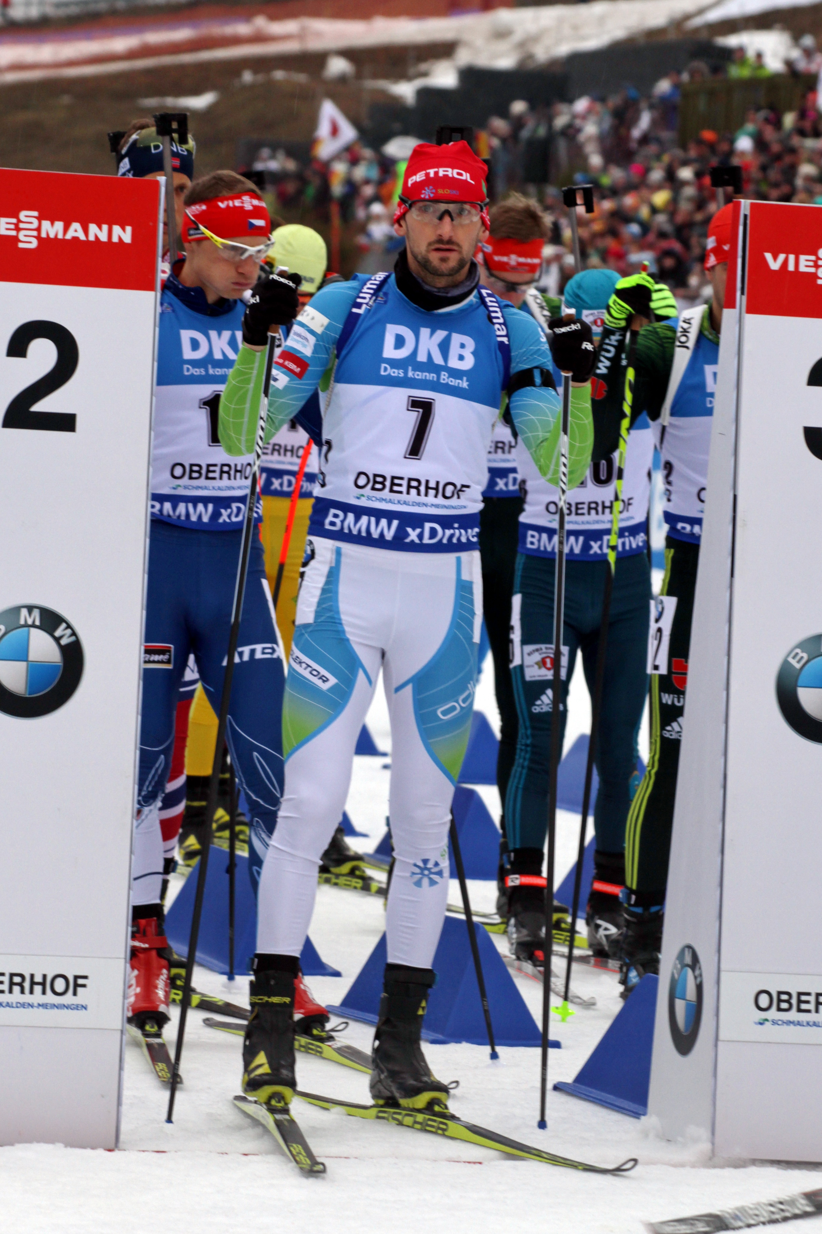 2018 Oberhof Biathlon World Cup - Pursuit Men